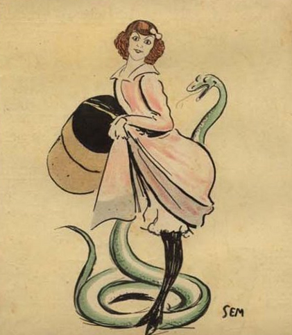 Caricature of Eve Lavallière, cover of "Le cri de Paris", 1902